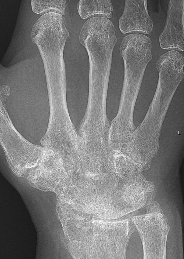 X-ray of the wrist of a 66 year old woman with rheumatoid arthritis, showing ankylosing fusion of the carpal bones. Previous X-ray showed unaffected carpal bones - see File:Rheumatoid arthritis with unaffected carpal bones 2009.jpg.